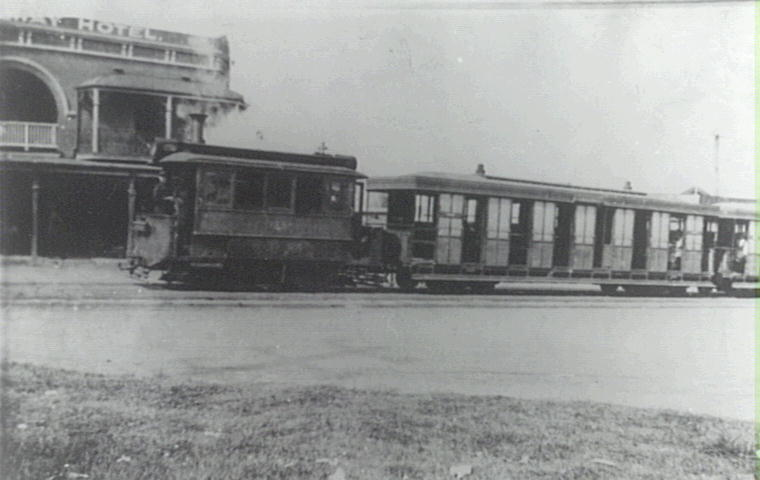 Information: Steam motor 125A standing in Railway Parade at the intersection of Station Street, Sutherland, New South Wales, Australia, with Boyle's Hotel background left, ca. 1920s. Uploaded by: JROBBO Source: Sutherland Shire Council - According to the record of this photograph, this photograph was taken in the 1920s. Since this is a photograph taken before 1955, I believe it qualifies as public domain.